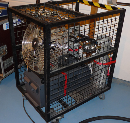 Mandrilloptere in dolly use with MDG 5000 HO haze generator.